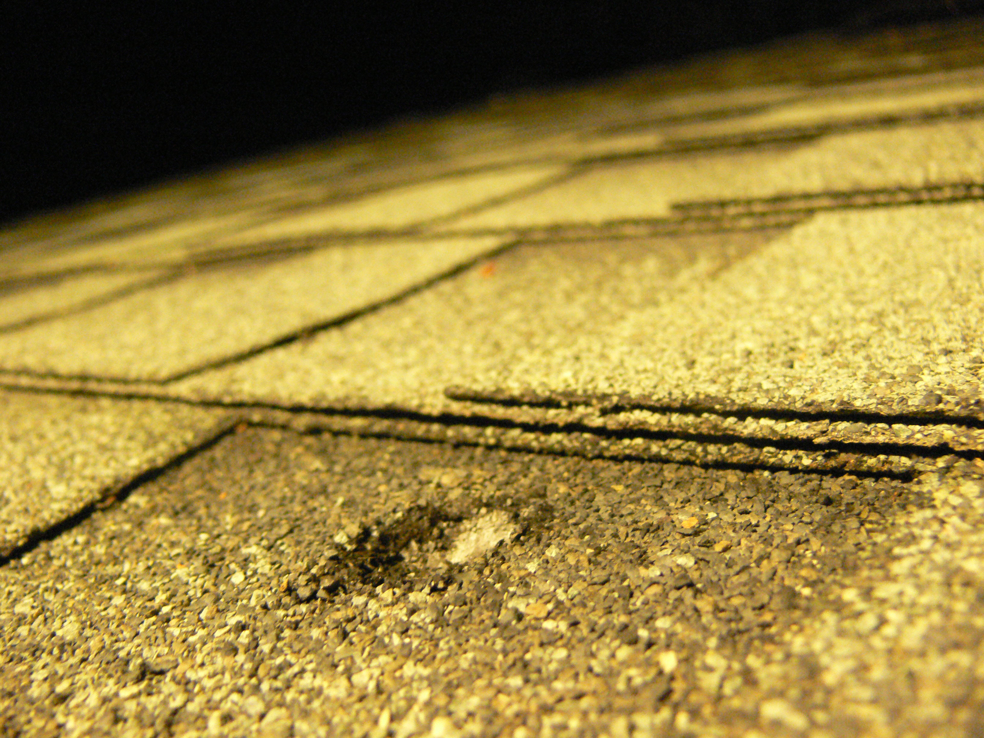 Small dent made in roof of Lisa Webber by a 61.9 gram Novato Meteorite on 17 October, 2012.